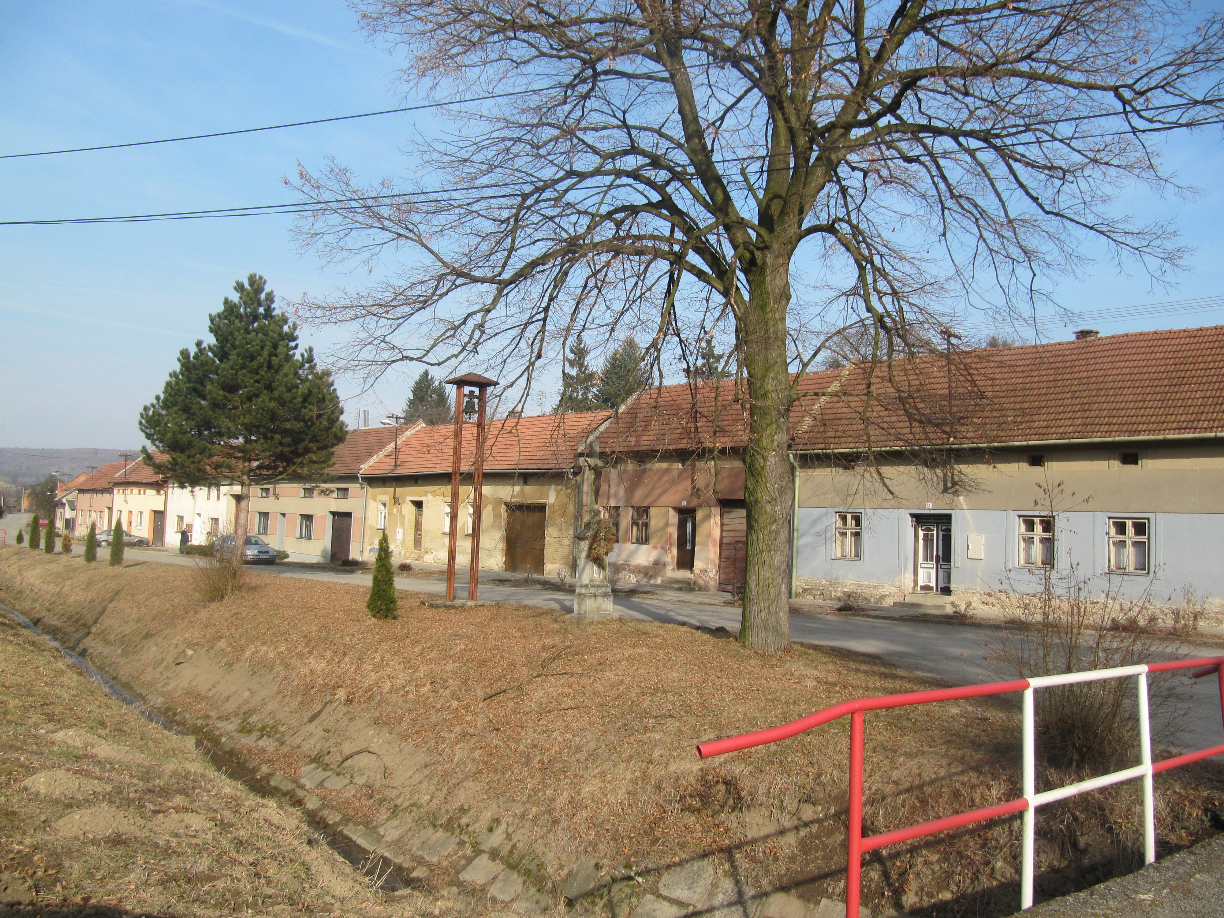 Kožušice in Vyškov District, Czech Republic. Common.